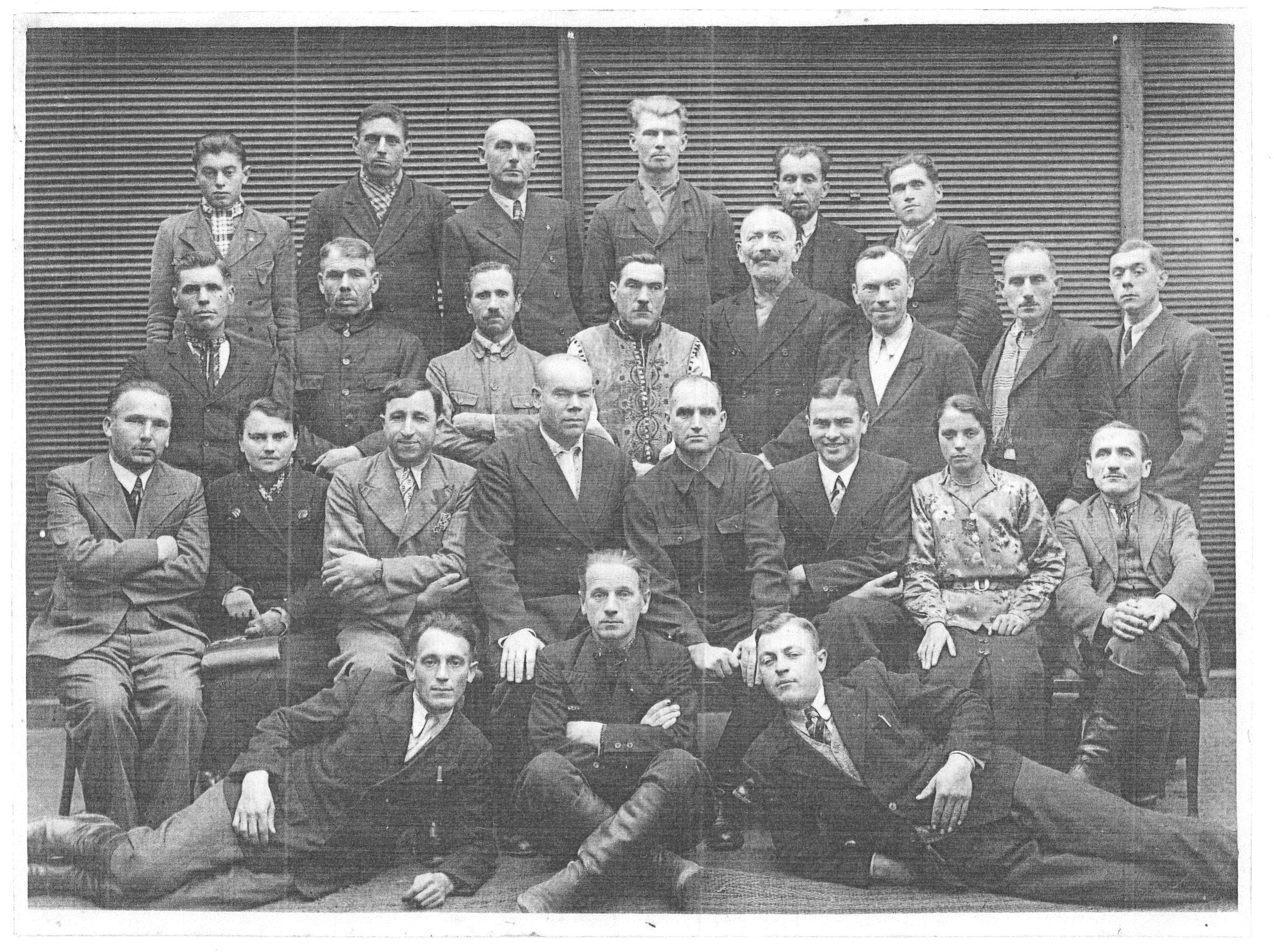 Стара фотографія